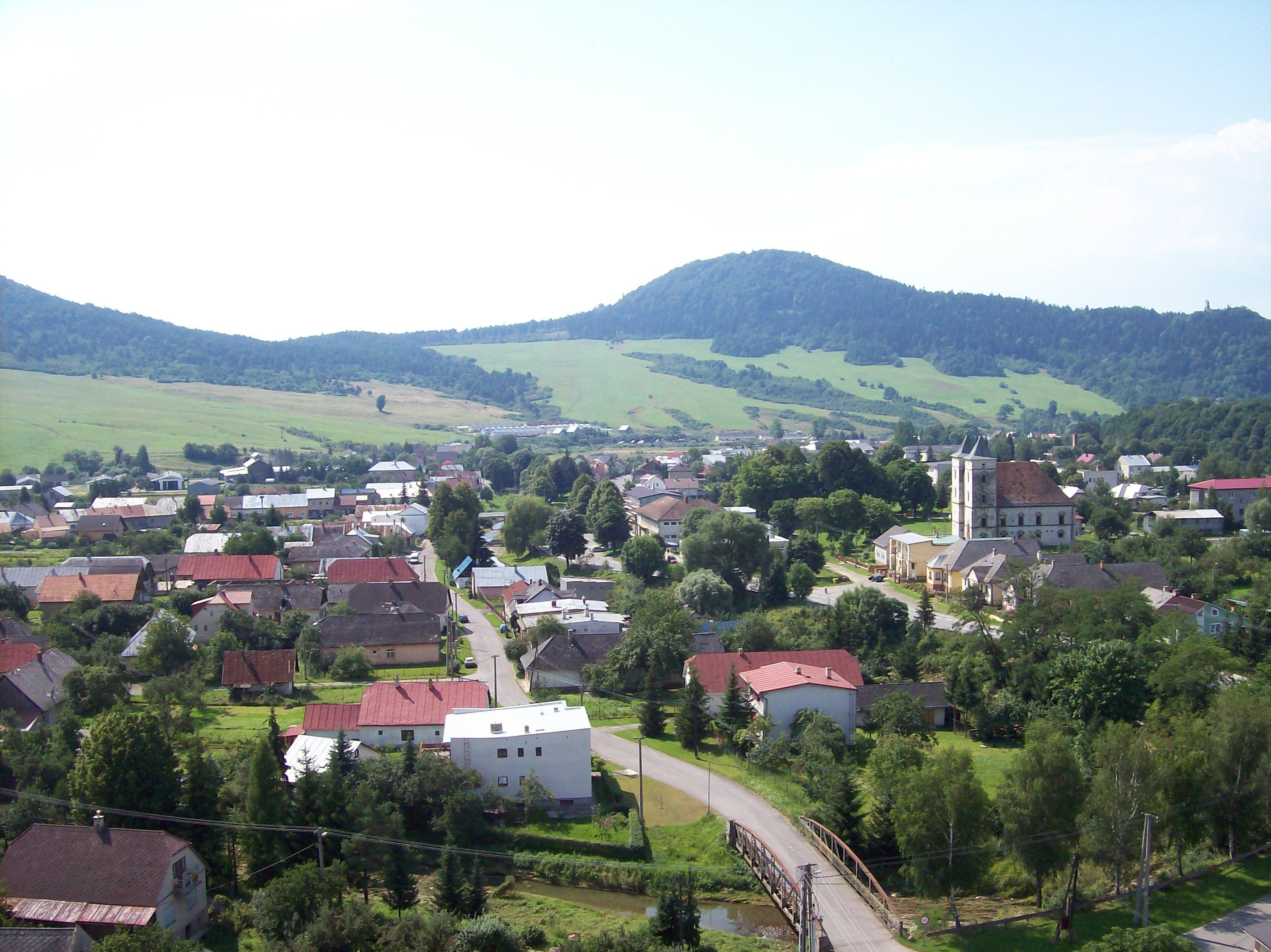 View of Zborov vilage.